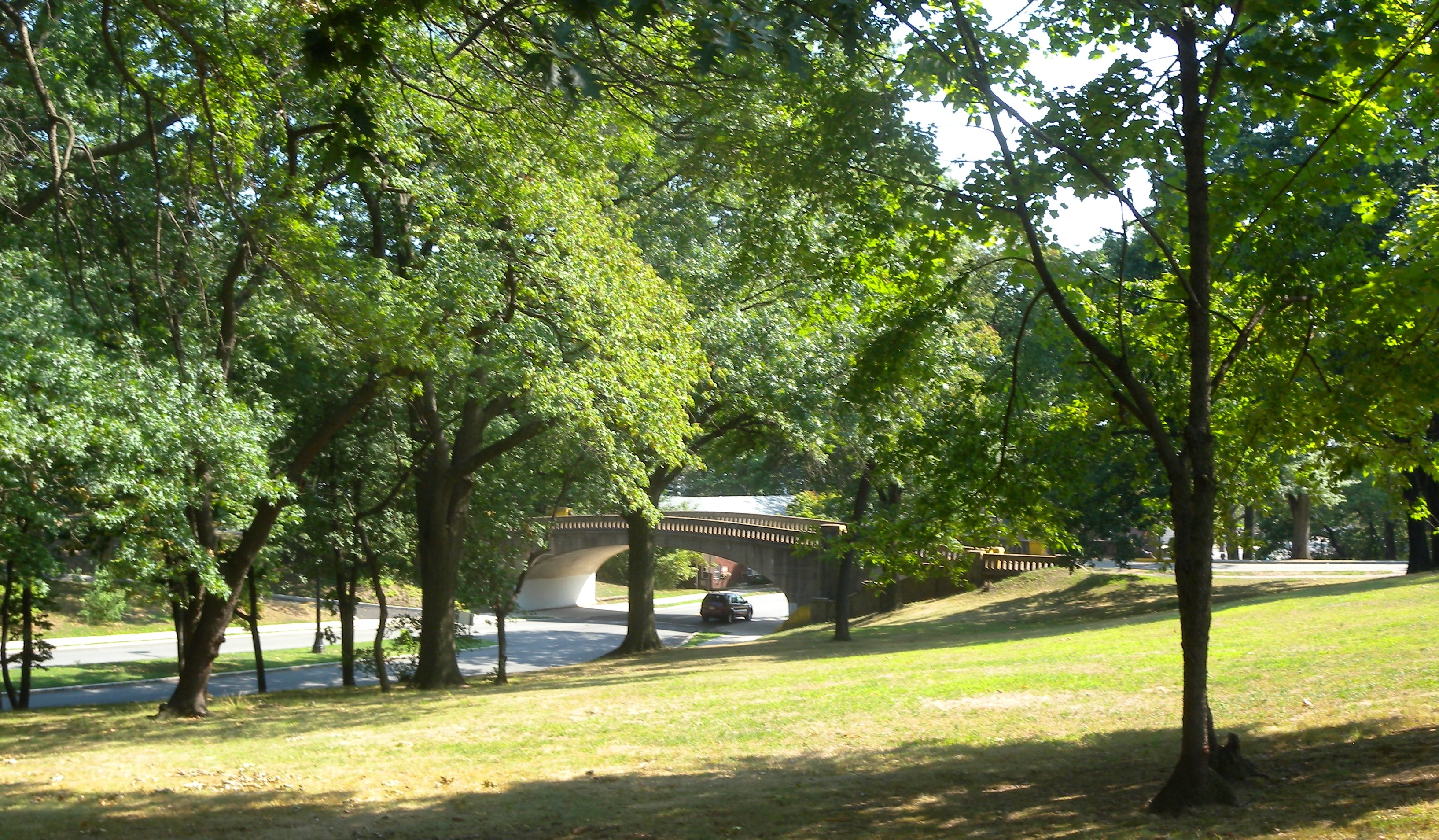 Looking southeast as Davis Avenue passes under Woodland Avenue in West Hudson Park on a sunny early afternoon.